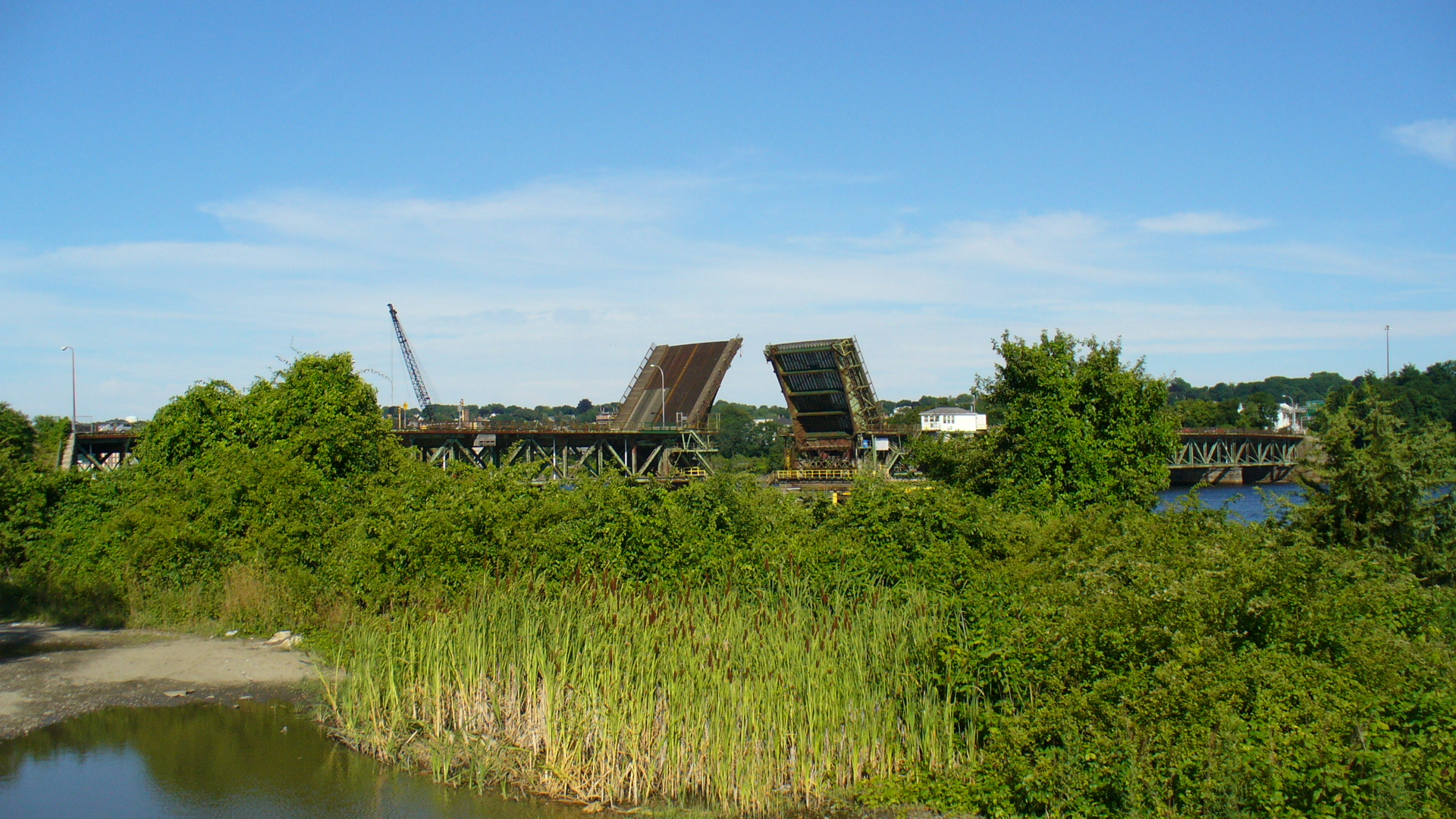 The Brightman Street Bridge in Fall River, MA opening for a boat to pass through.